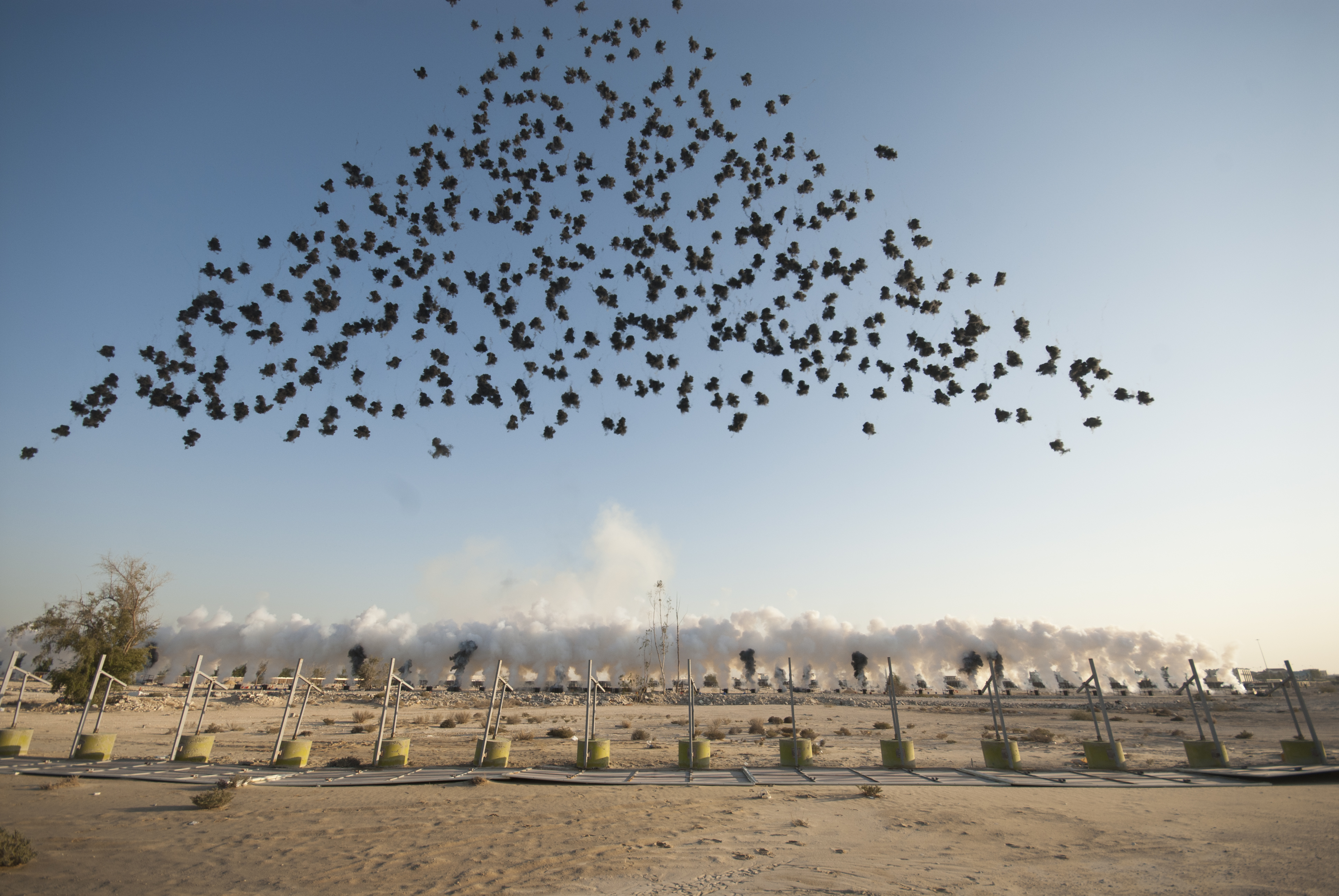 "Black Ceremony" by Cai Guo-Qiang in Doha Qatar, 5 December 2011.